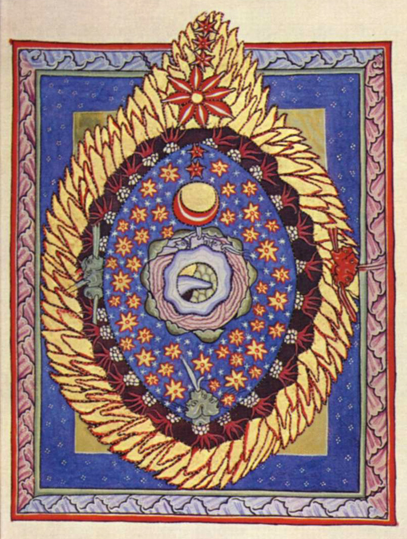 Cropped from :Image:Meister des Hildegardis-Codex 001.jpg.